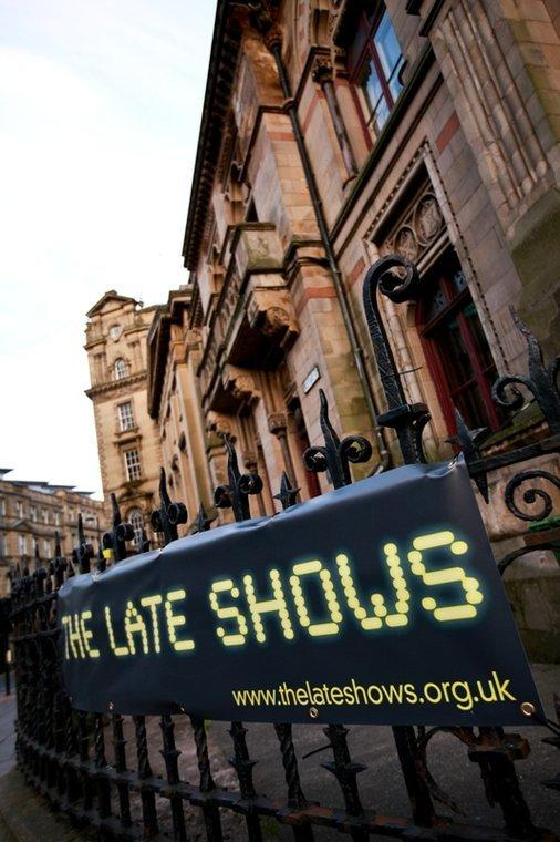 North of England Institute of Mining and Mechanical Engineers exterior with The Late Shows banner uploaded with the authority of the Mining Institute librarian Jennifer Hillyard.